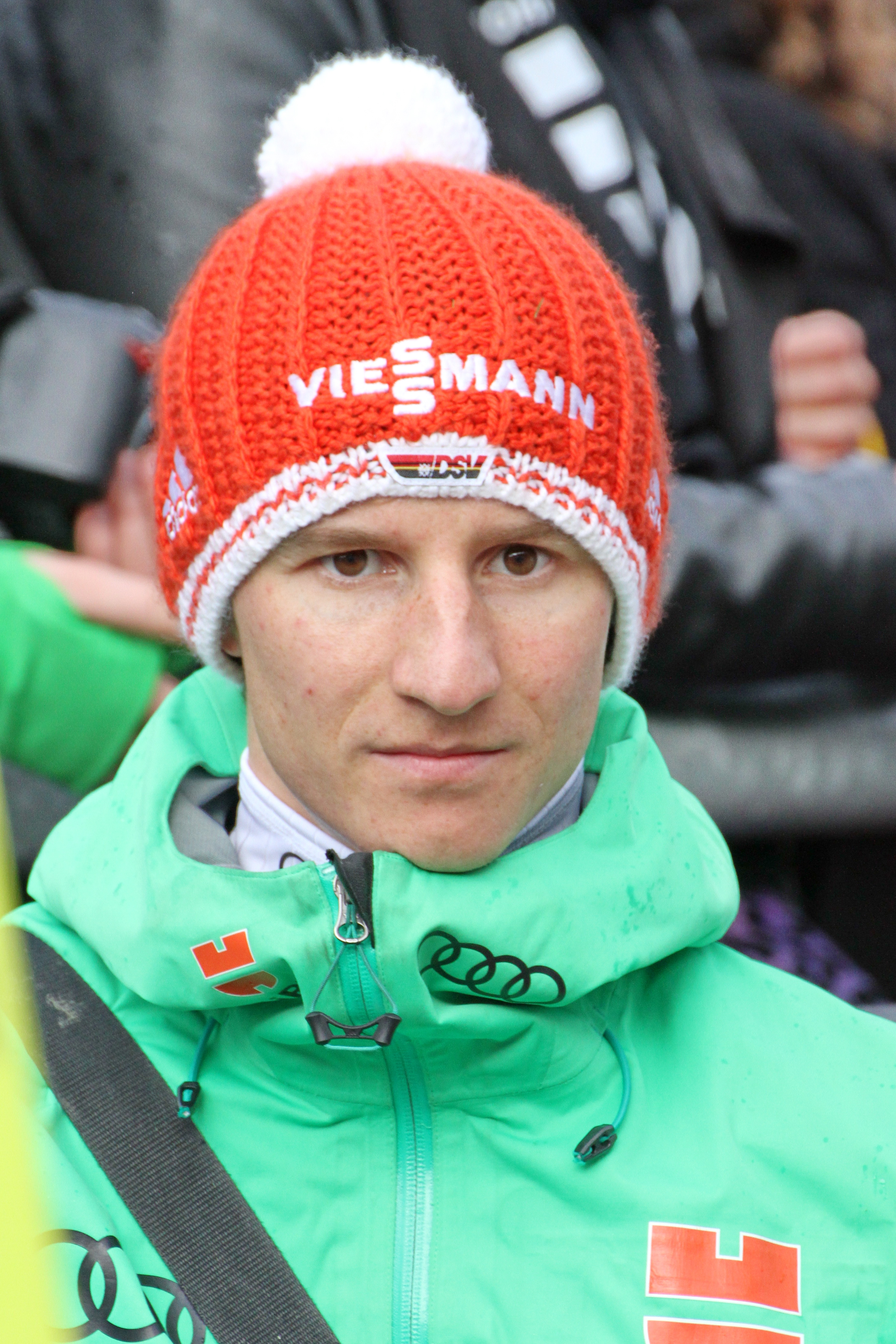 FIS Ski Jumping Summer Grand Prix Klingenthal 2017 on 2017-10-03 Karl Geiger